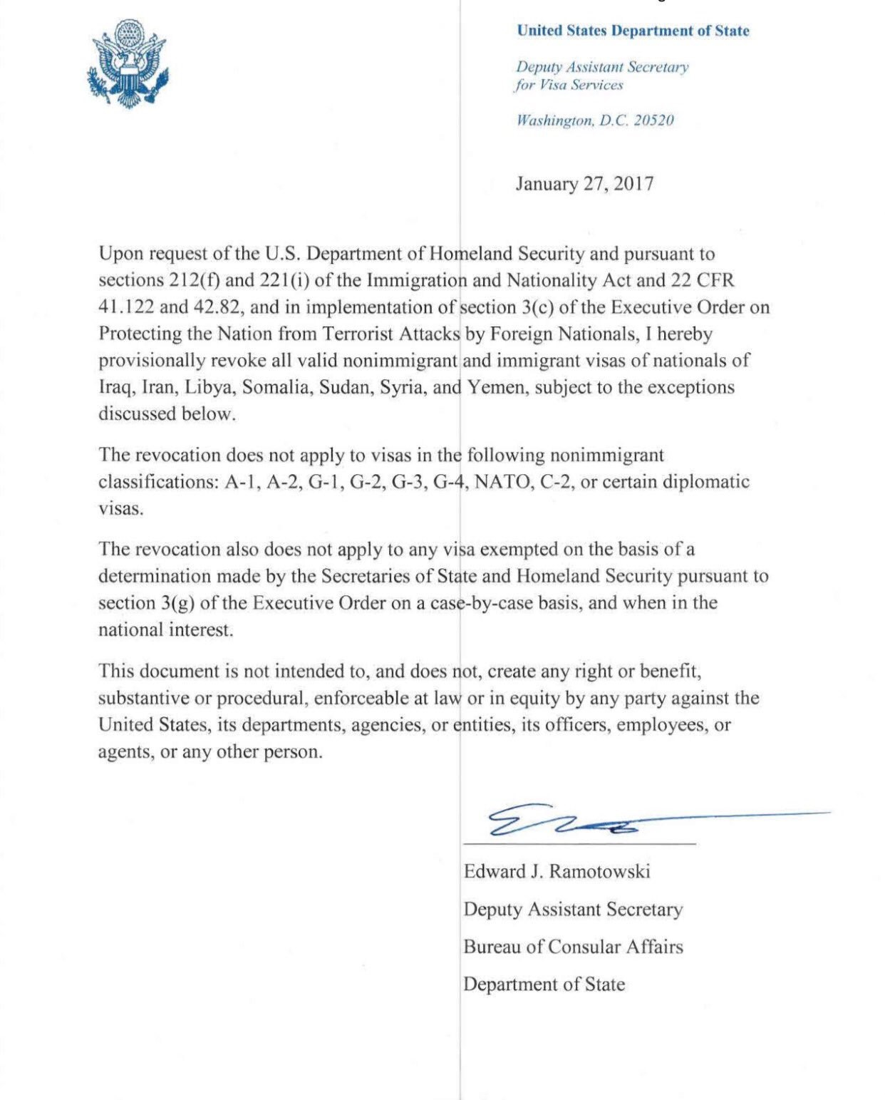 Provisional revocation of visas, dated January 27, 2017, and signed by Edward J. Ramotowski, Deputy Assistant Secretary for Visa Services, Bureau of Consular Affairs, Department of state.